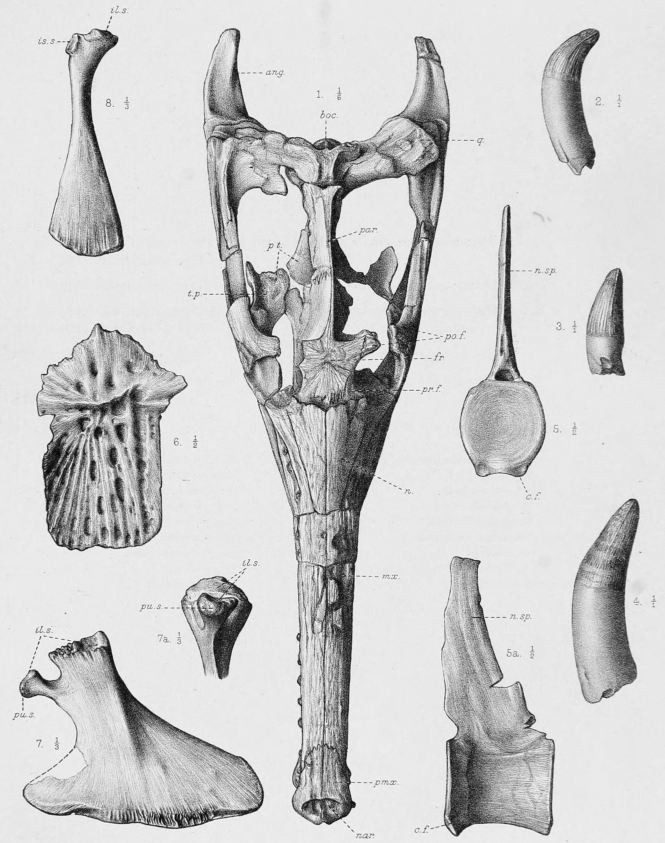 Lemmysuchus obtusidens (formerly Steneosaurus) holotype specimen. Title: A descriptive catalogue of the marine reptiles of the Oxford clay. Based on the Leeds Collection in the British Museum (Natural History), London .. Year: 1910 (1910s) Authors: British Museum (Natural History). Dept. of Geology; Andrews, Charles William, 1866-1924 Subjects: Reptiles, Fossil Publisher: London, Printed by order of the Trustees Text Appearing Before Image: CATAL.MARINE REPT. OXFORD CLAY. PART II. PLATE VII. il.s. Text Appearing After Image: G.M.Woodward del.et 11th. "West.Newmaii imp. STENEOSAURUS OBTUSIDENS.